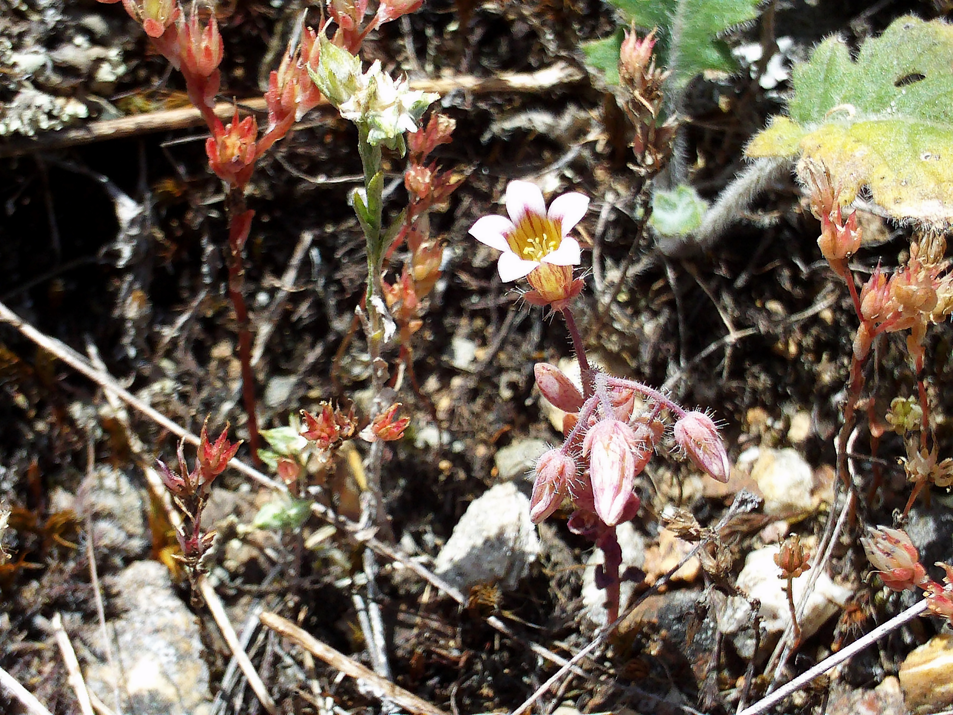 Sedum mucizonia Flower Closeup in Sierra Madrona, Spain